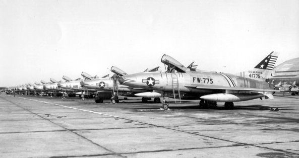 F-100s of the 450th Fighter-Day Wing on the flightline at Foster AFB, Texas, 1956